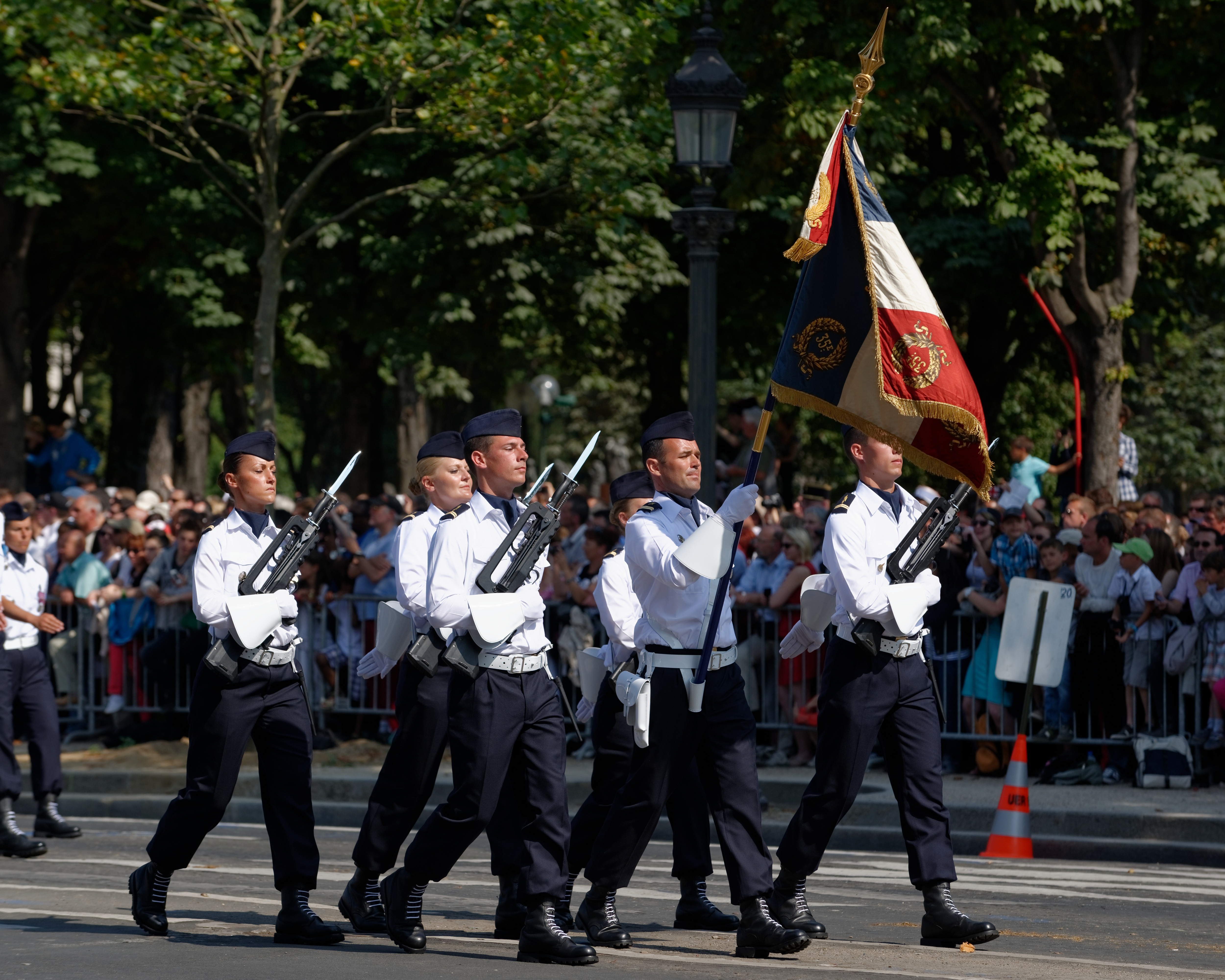 Colour guard of the Lyon Mont-Verdun Air Base in the Bastille Day 2013 military parade on the Champs-Élysées in Paris.